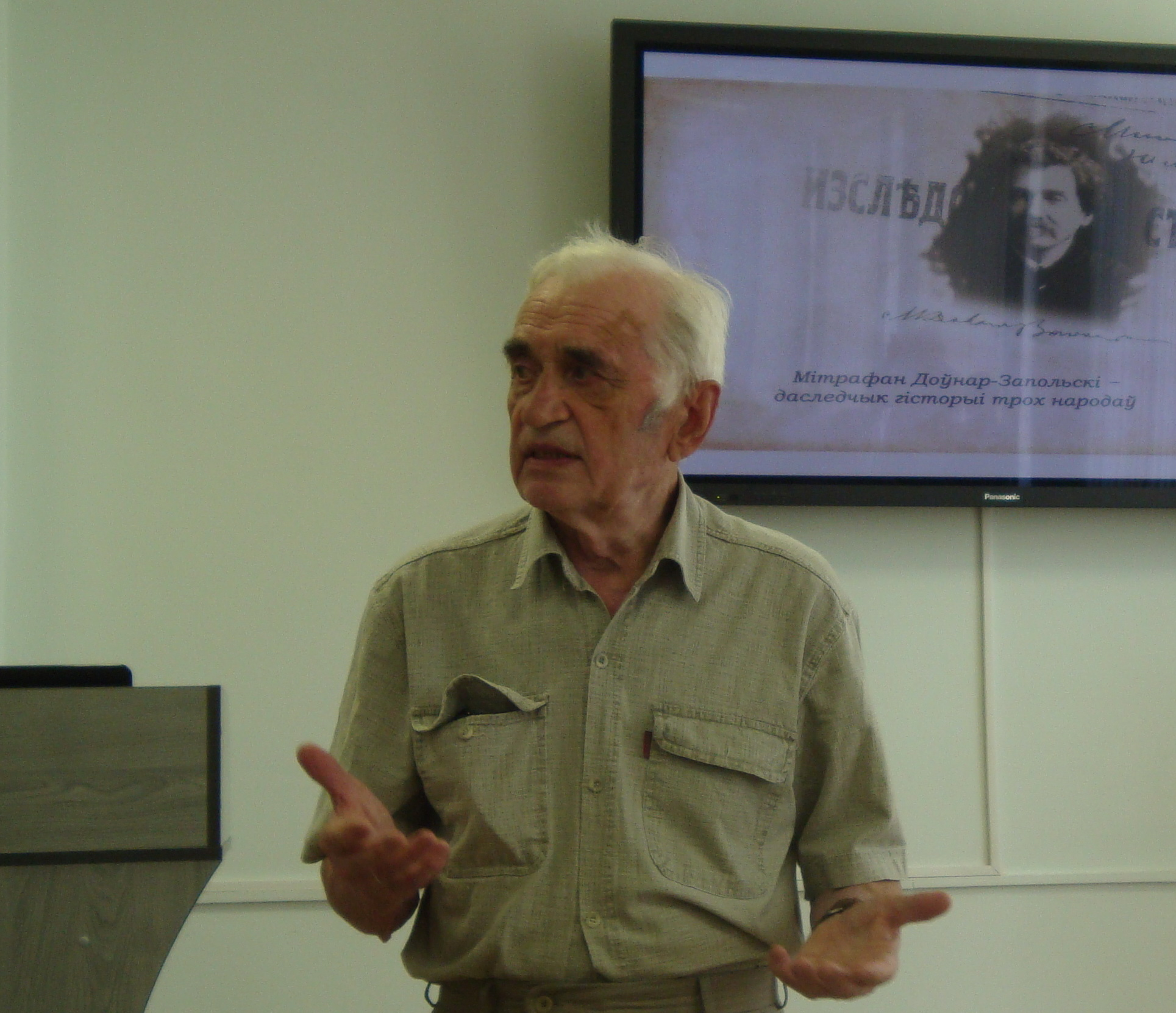 Arsen Lis (born 1934 AD), belarussian literary critic and philologist, - in Minsk city (Belarus), 14 June 2013 AD